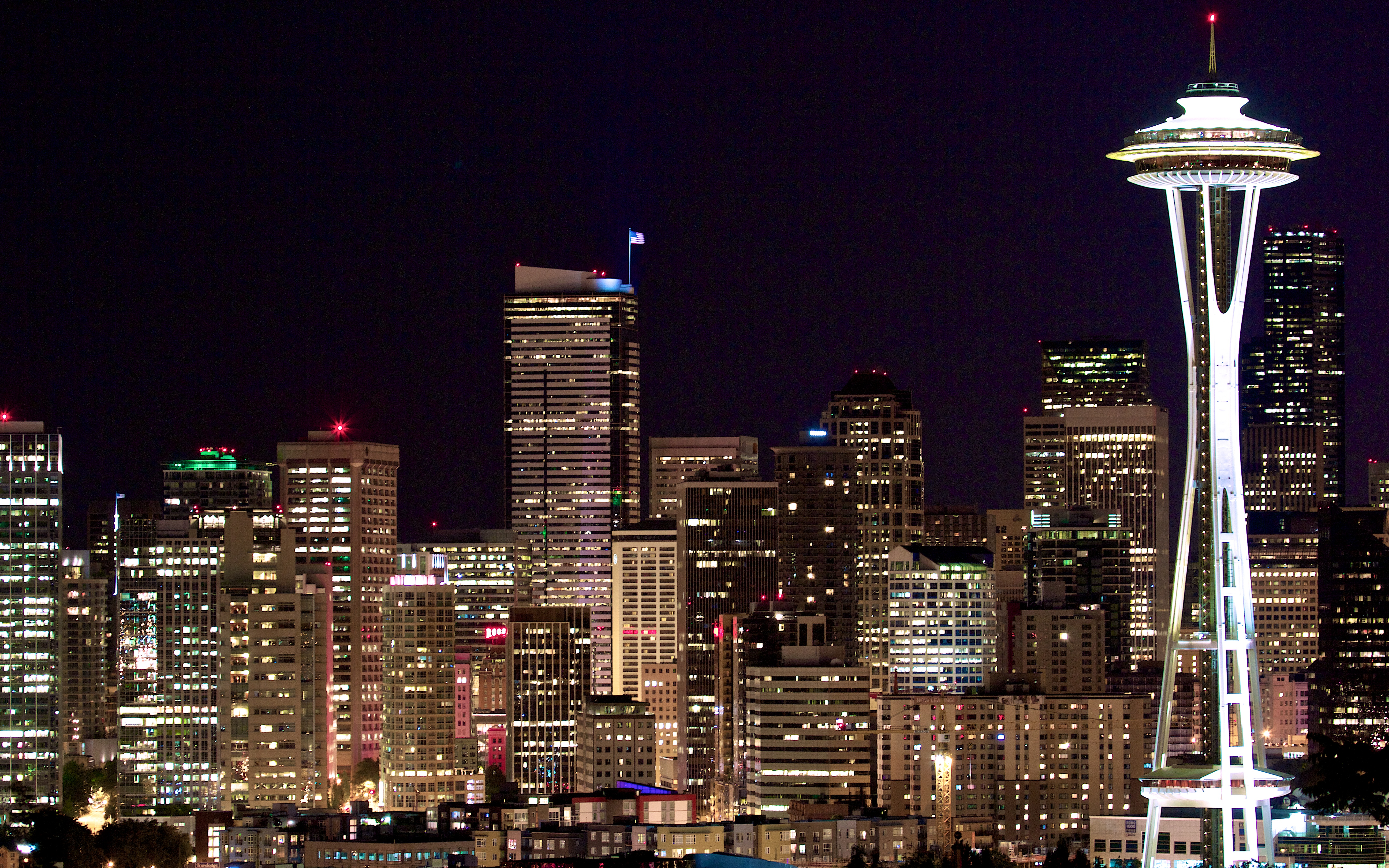 The northern two-thirds of Seattle's skyline viewed from Kerry Park in Queen Anne.